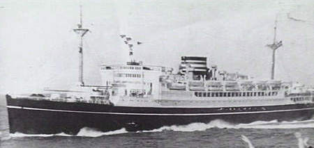 Port side view of MV Chichibu Maru